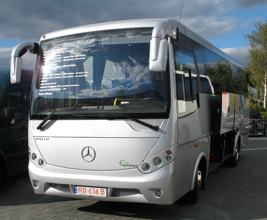 Automet Apollo bus in Kielce, Poland, Transexpo 2007 exhibition. Built 2007. Base on Mercedes-Benz typ 970.24 chassis.